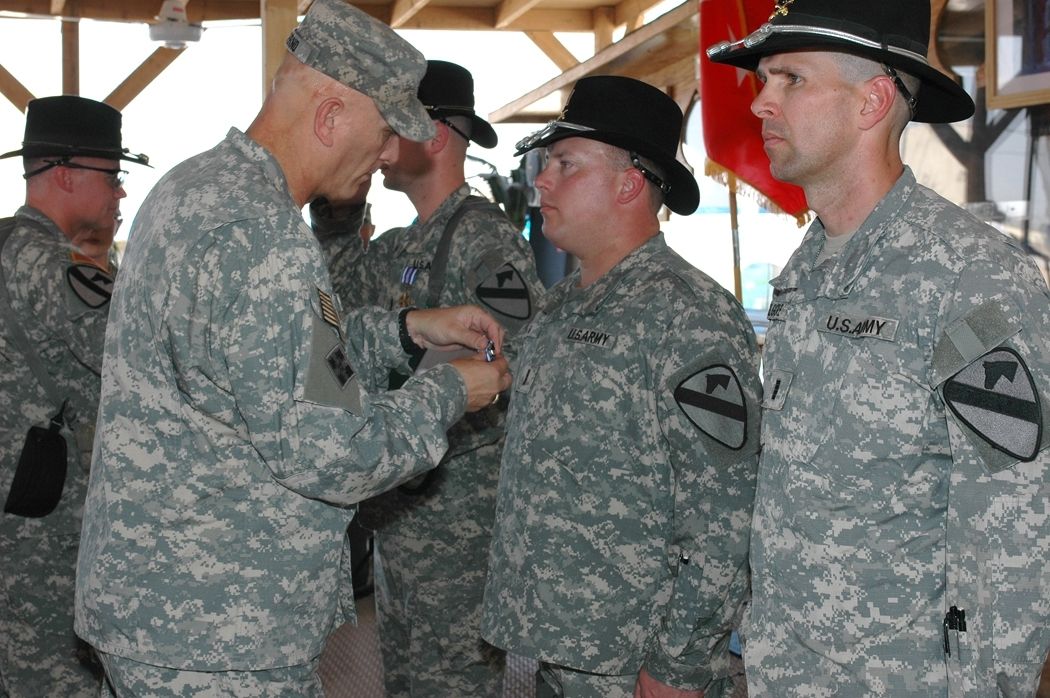 Lt. Gen. Raymond Odierno, commanding general of Multi-National Corps-Iraq, (left) presents the Distinguished Flying Cross to Onawa, Iowa, native Chief Warrant Officer Elliott Ham, (second from right), as Portage, Ind., native Chief Warrant Officer 4 Steven Kilgore, (right), waits in a ceremony Oct. 28 at Camp Taji, Iraq. Four Apache pilots from 1st "Attack" Battalion, 227th Aviation Regiment, 1st Air Cavalry Brigade, 1st Cavalry Division, earned Distinguished Flying Crosses for their actions against five gun trucks with heavy machine guns on May 31. The Distinguished Flying Cross is the U.S. military's highest aviation-specific award.